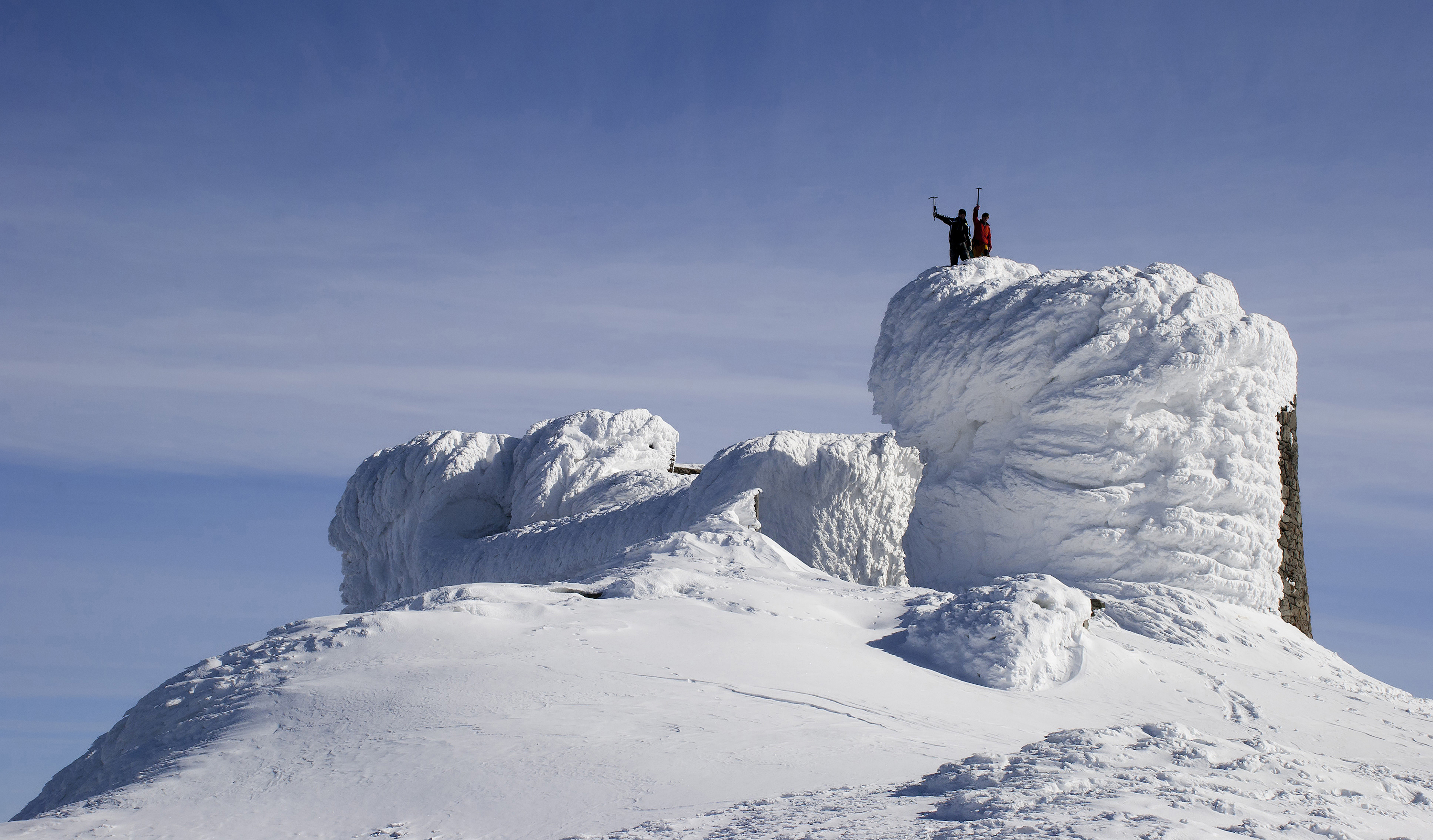 Bily slon (